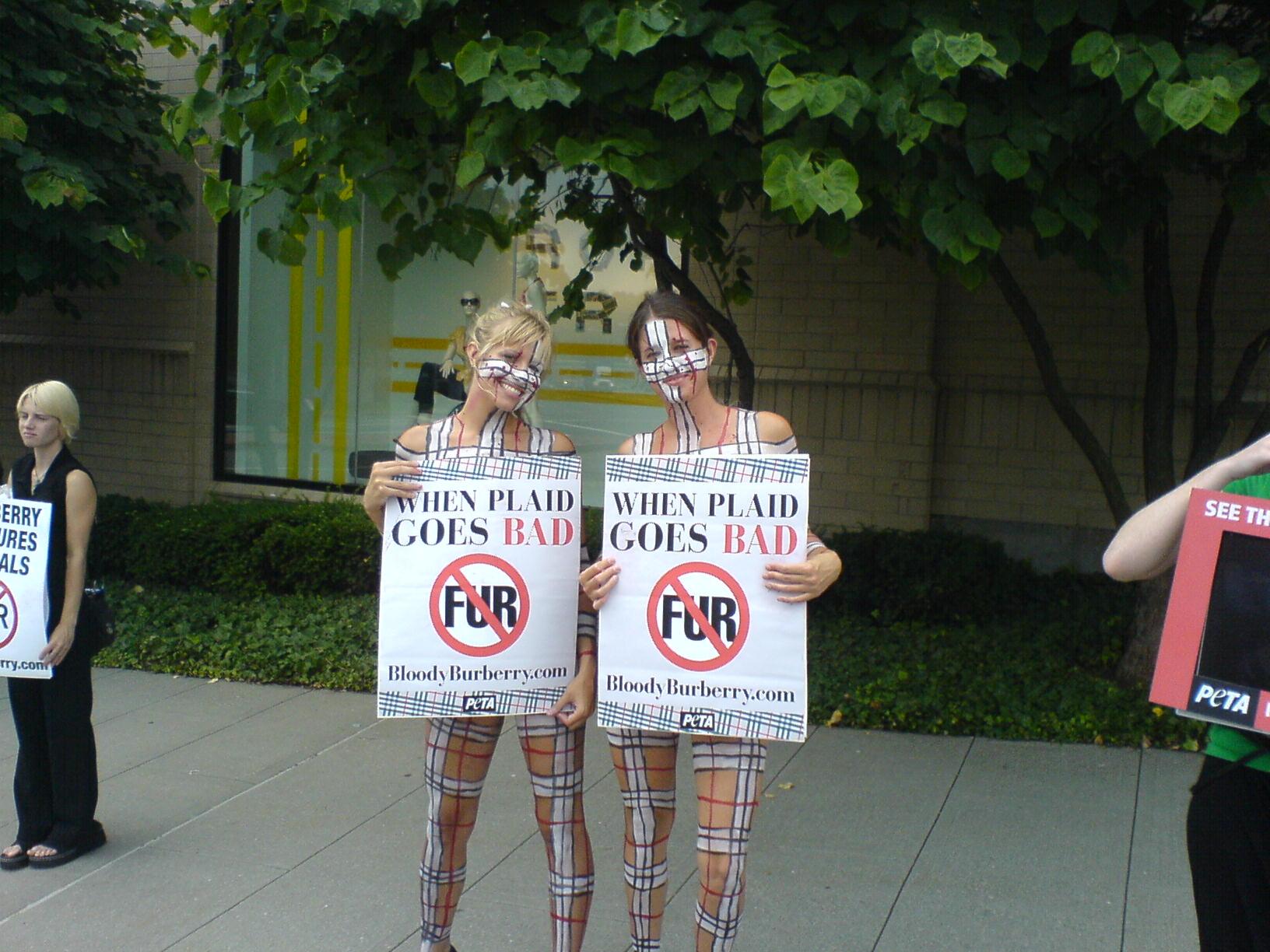 PETA protest in White Plains, New York